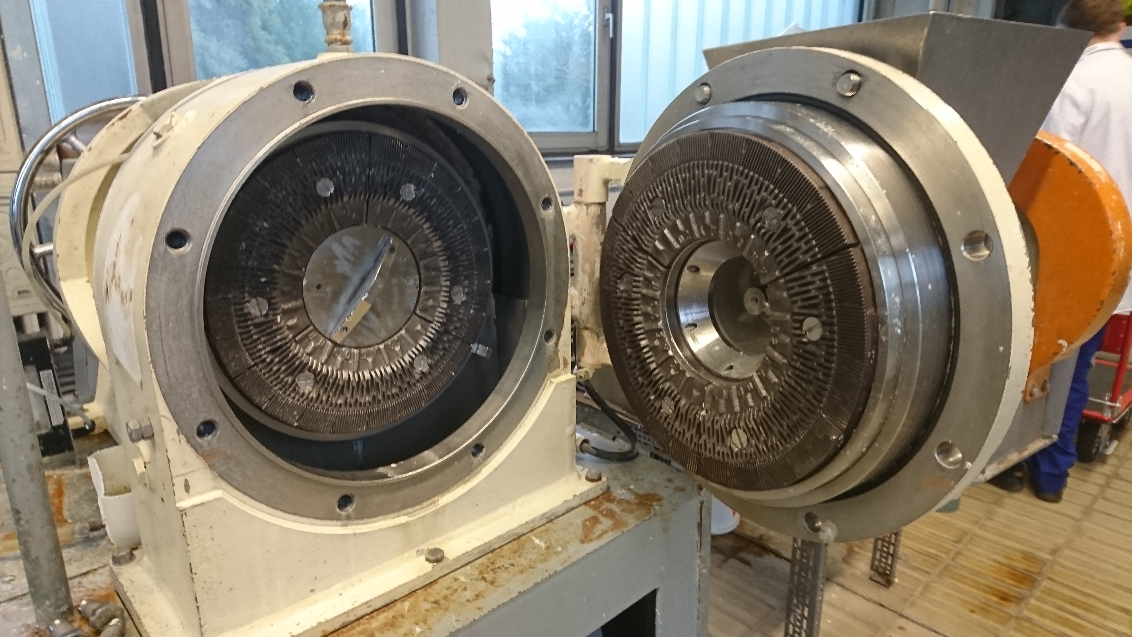 Refinerplate